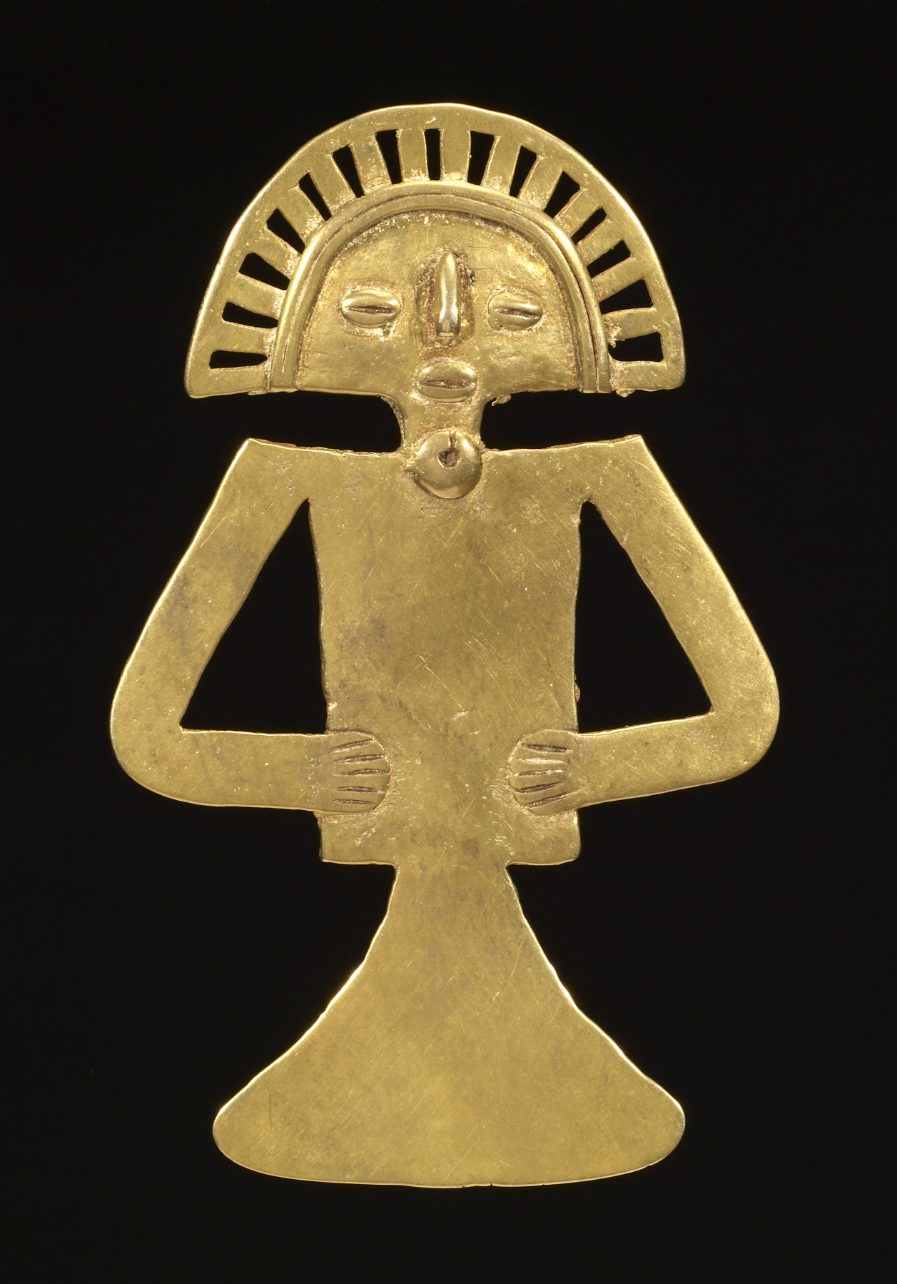 Gold work from the Tolima region of Columbia is characterized by strong geometric forms combining stylized parts of humans and animals. This figure has a triangular, bird-like tail indicating it may represent a deity or other supernatural being. This style is sometimes called "invasionist" because it shows stylistic influence of people who came to the region from the Amazon, across the Andes mountains.